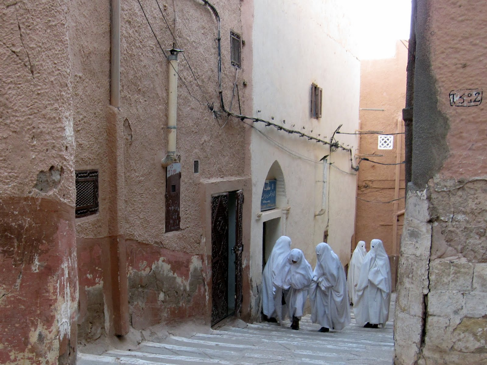 Married women can only expose one eye in (Ghardaïa - Algeria); elderly women can expose both eyes and some of the face